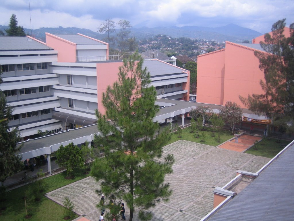 Parahyangan Catholic University Law School Building